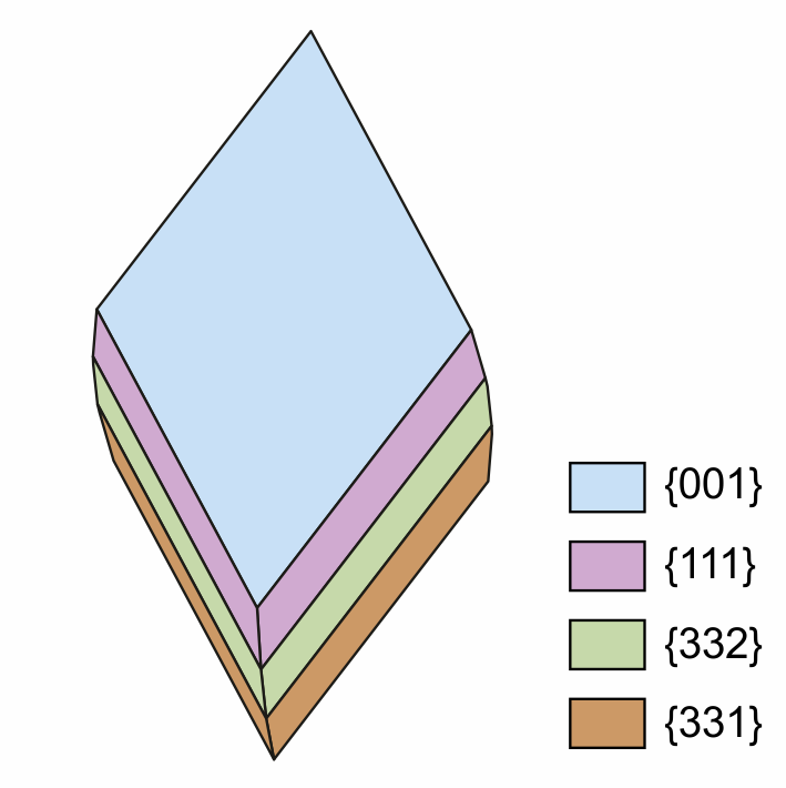 Drawing of a krettnichite crystal with crystal forms {001}, {111}, {332} and {331}; reference: J. Brugger et al. (2001), European Journal of Mineralogy, vol. 13, p. 148